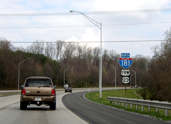 Signage for former Interstate 181 and U.S. Routes 19W and 23 in Johnson City, Tennessee. This segment of Interstate 181 became part of Interstate 26 in August 2003.